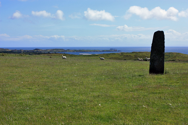 Standing stone at Kilbride This stone is visible from other stones in the area and may be a waymarker.